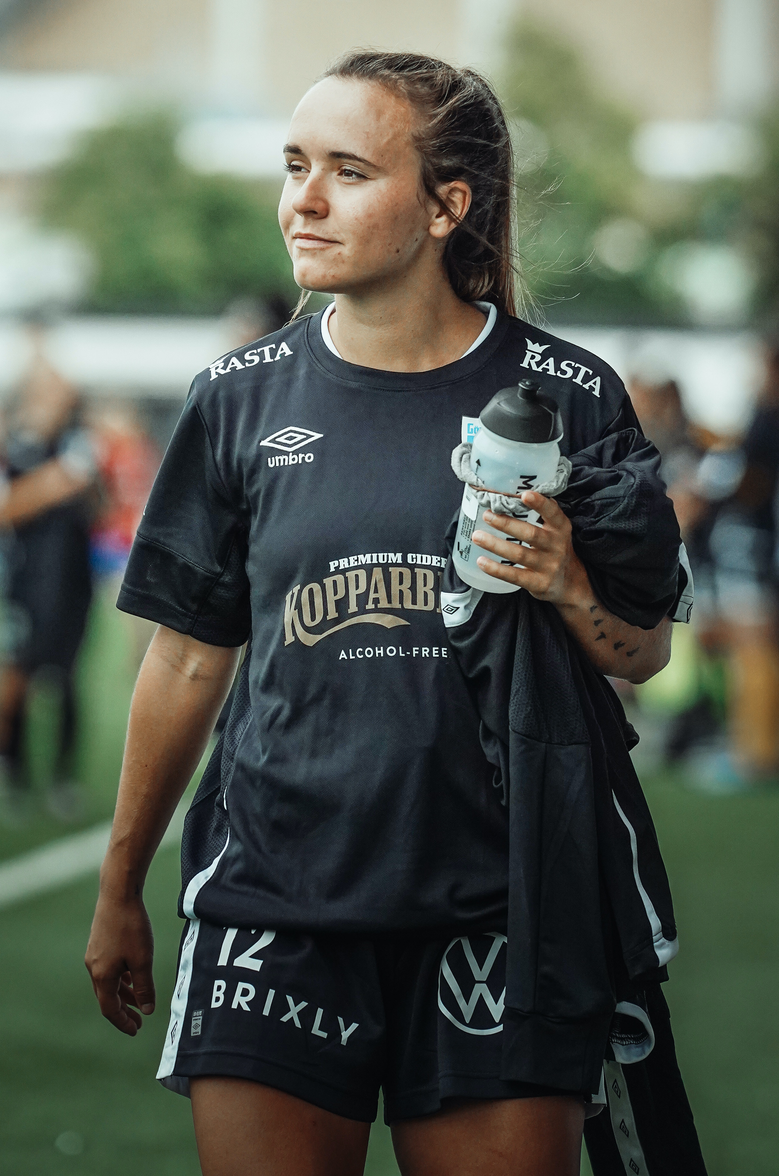 Bri Folds coming off the pitch in a preseason friendly for Kopparbergs/Gothenburg FC in June 2020